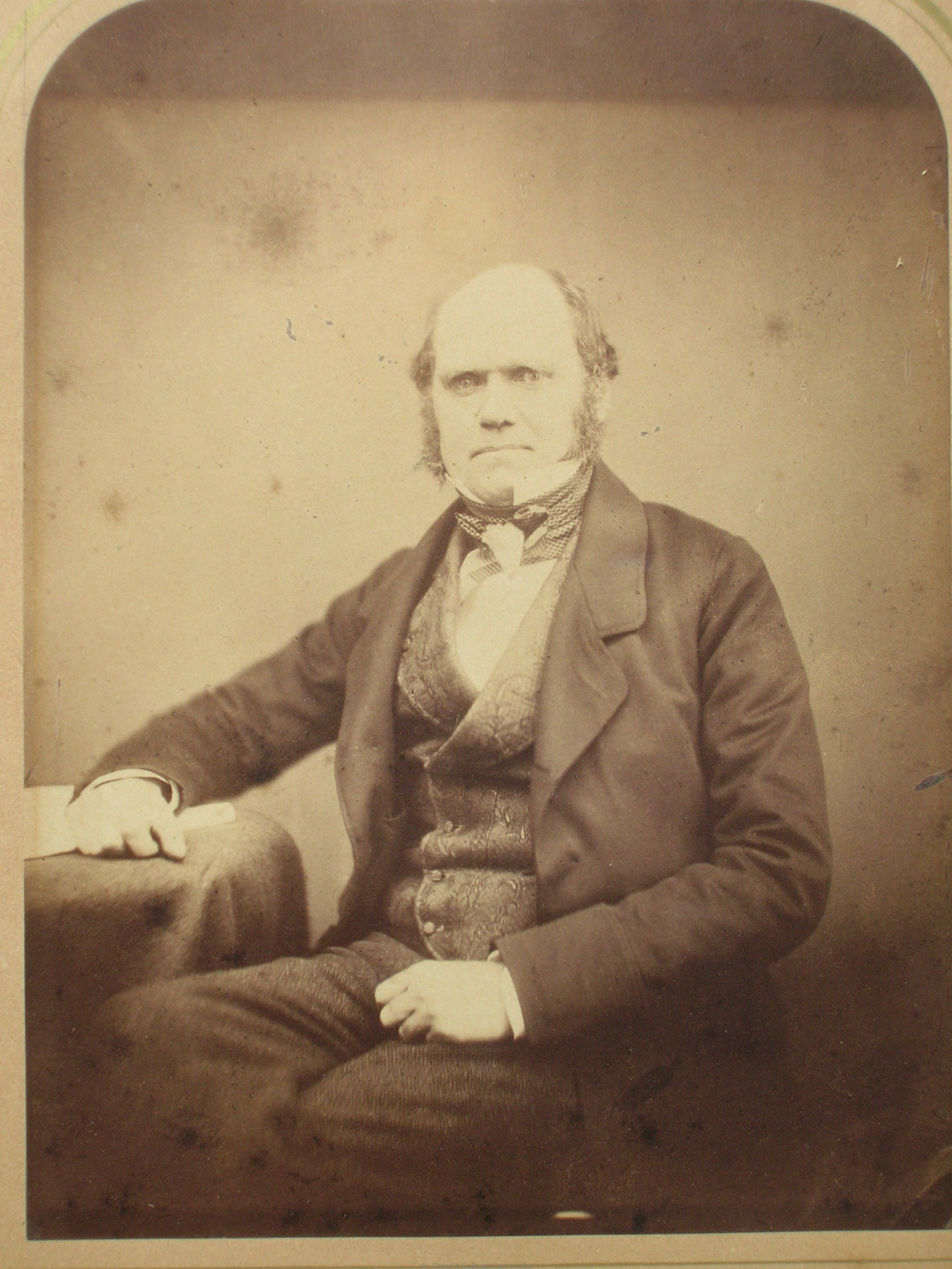 Photograph of Charles Darwin by Maull and Polyblank for the Literary and Scientific Portrait Club (1855)